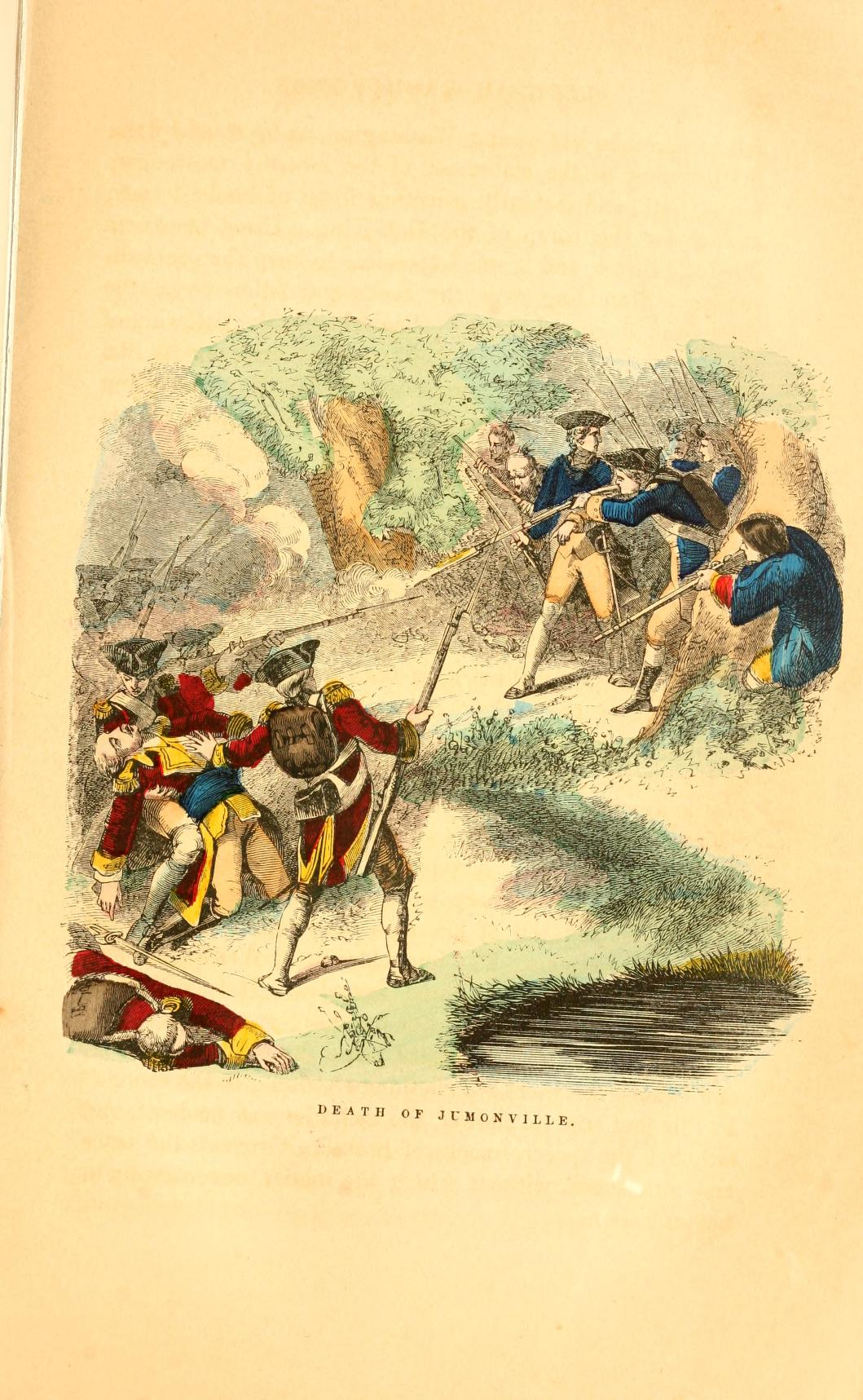 Depiction of the Battle of Jumonville Glen, 1754